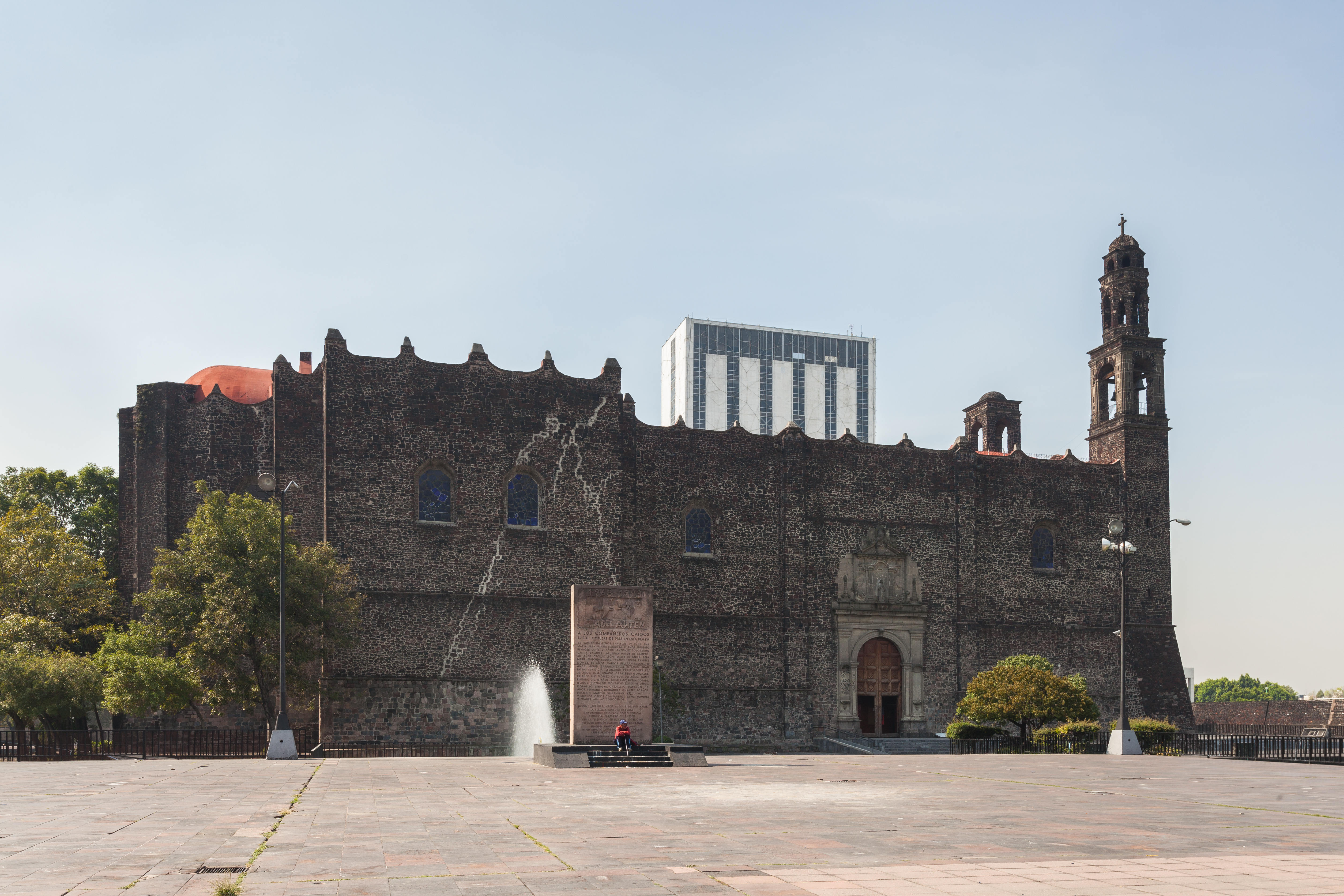 Church of Santiago Tlatelolco, Mexico City, Mexico